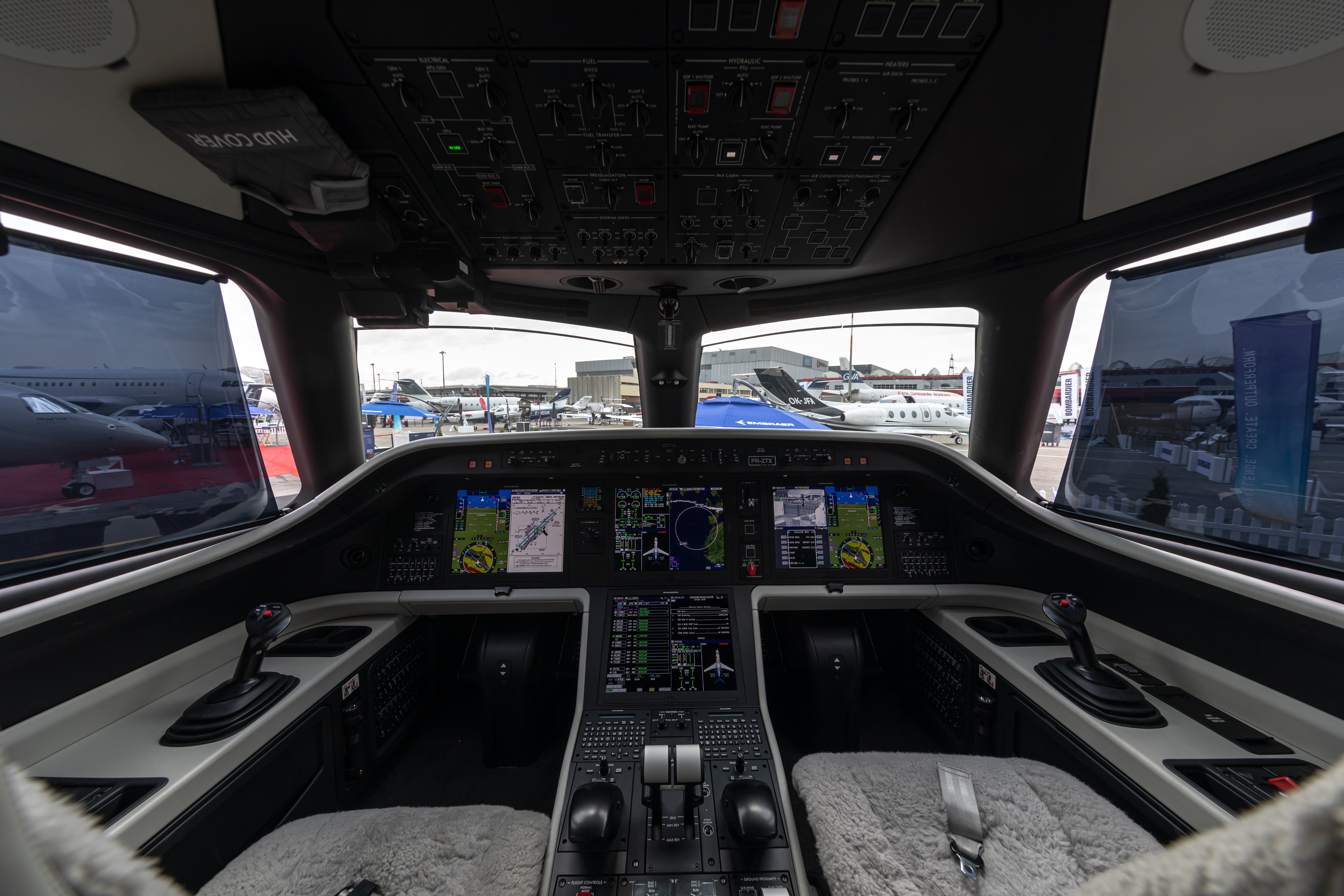 Cockpit of an Embraer Praetor 600 at EBACE 2019, Palexpo, Switzerland